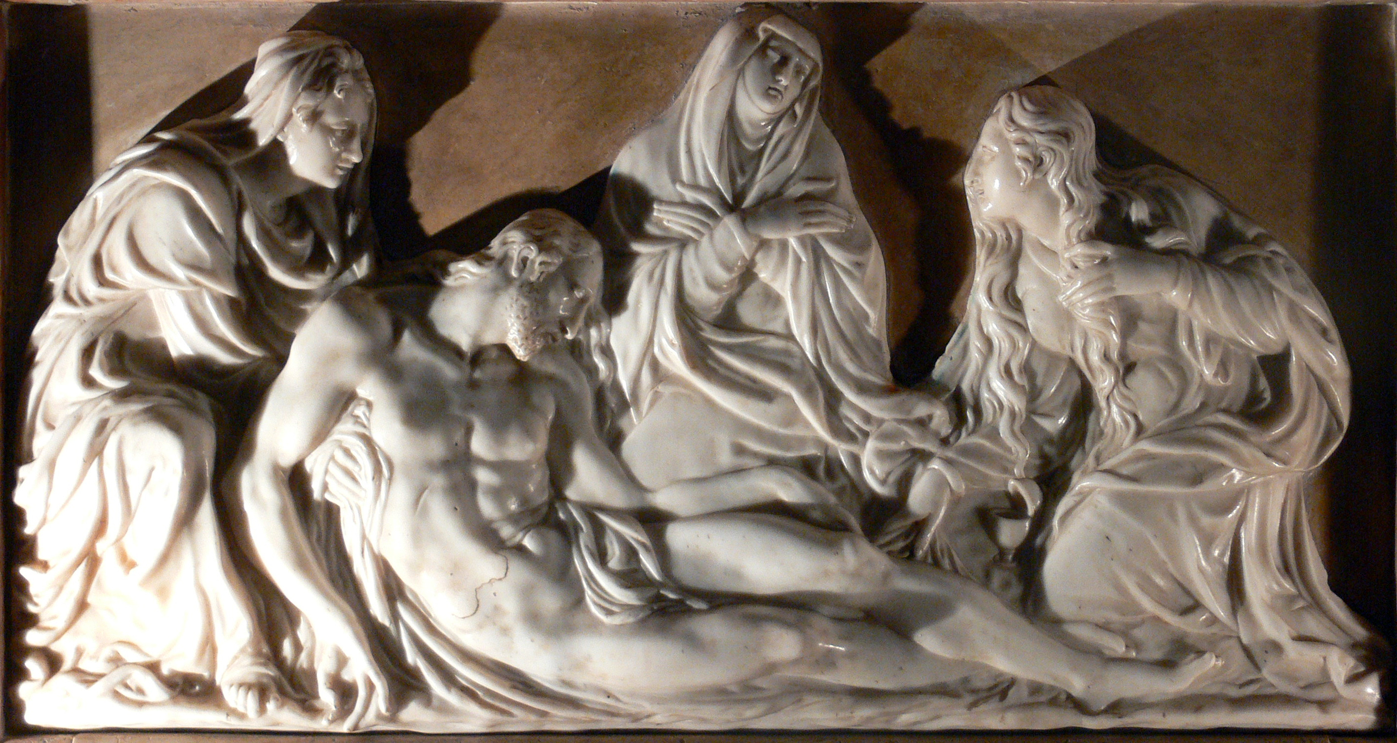 Bas-relief representing the Entombment of the Christ on the altar.